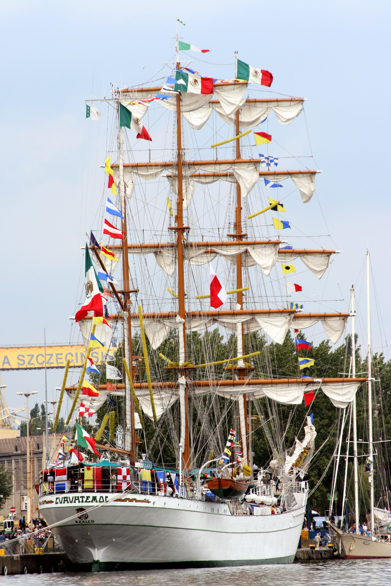 Cuauhtemoc, The Tall Ships' Races, Szczecin 2007